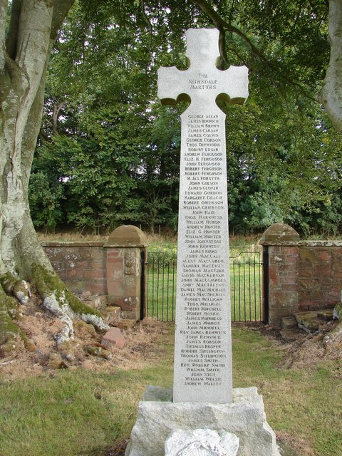 Dalgarnock Churchyard Cross Martyrs Cross (1928) inside Dalgarnock Churchyard commemorates 57 Nithsdale Covenanters.